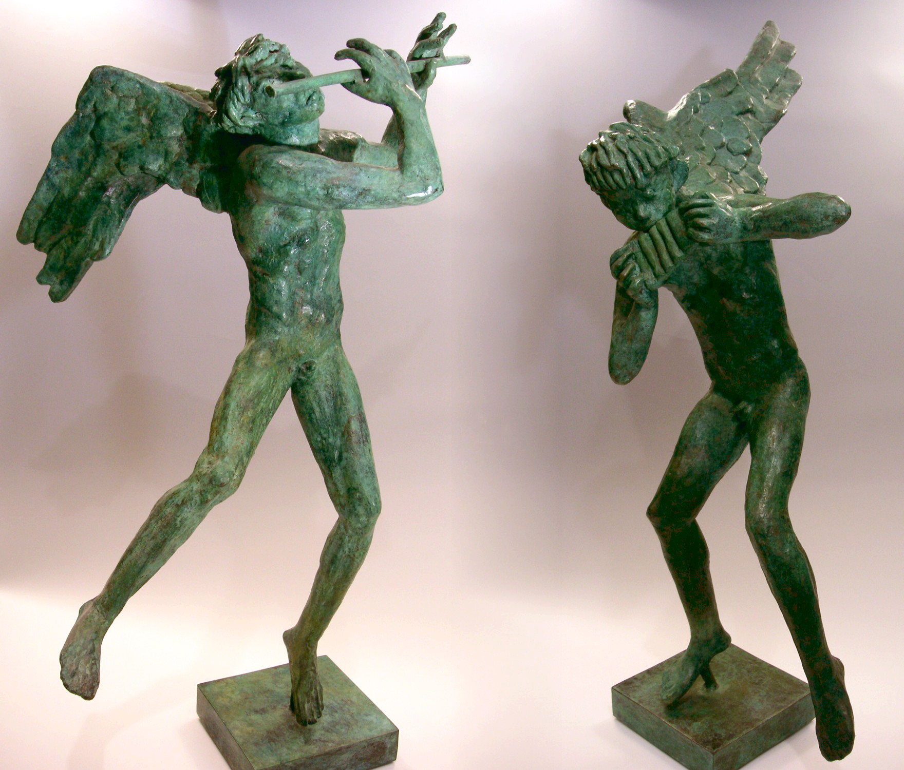 Carl Milles statyetter: Musicerande Änglar